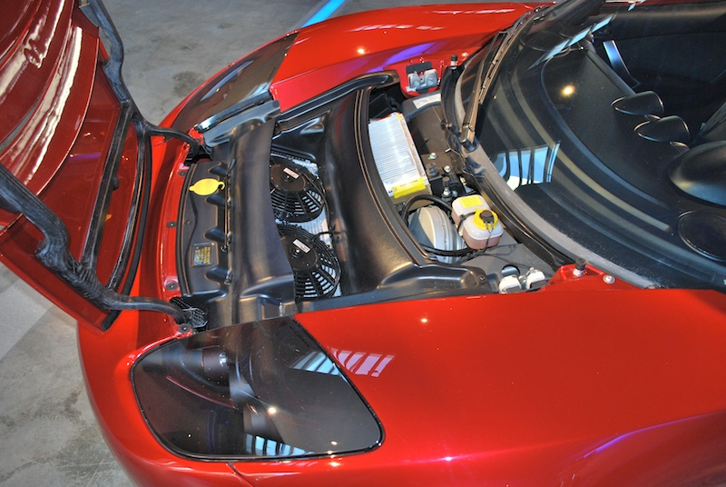 Tesla Roadster under the hood